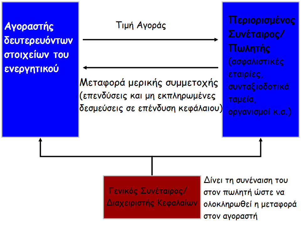 Diagram of secondary market transfer for Private equity secondary market